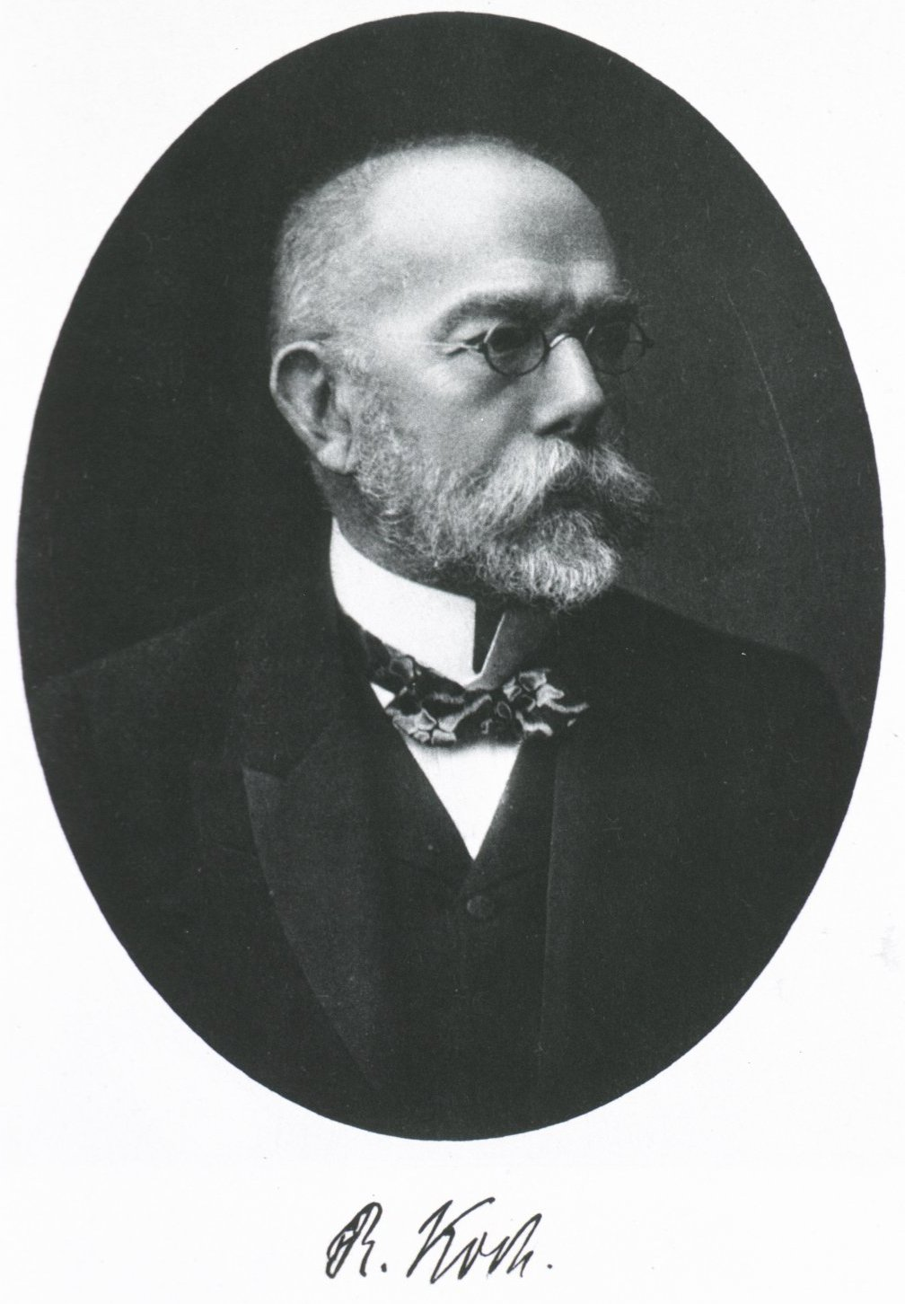 Portrait of Robert Koch (1843—1910).